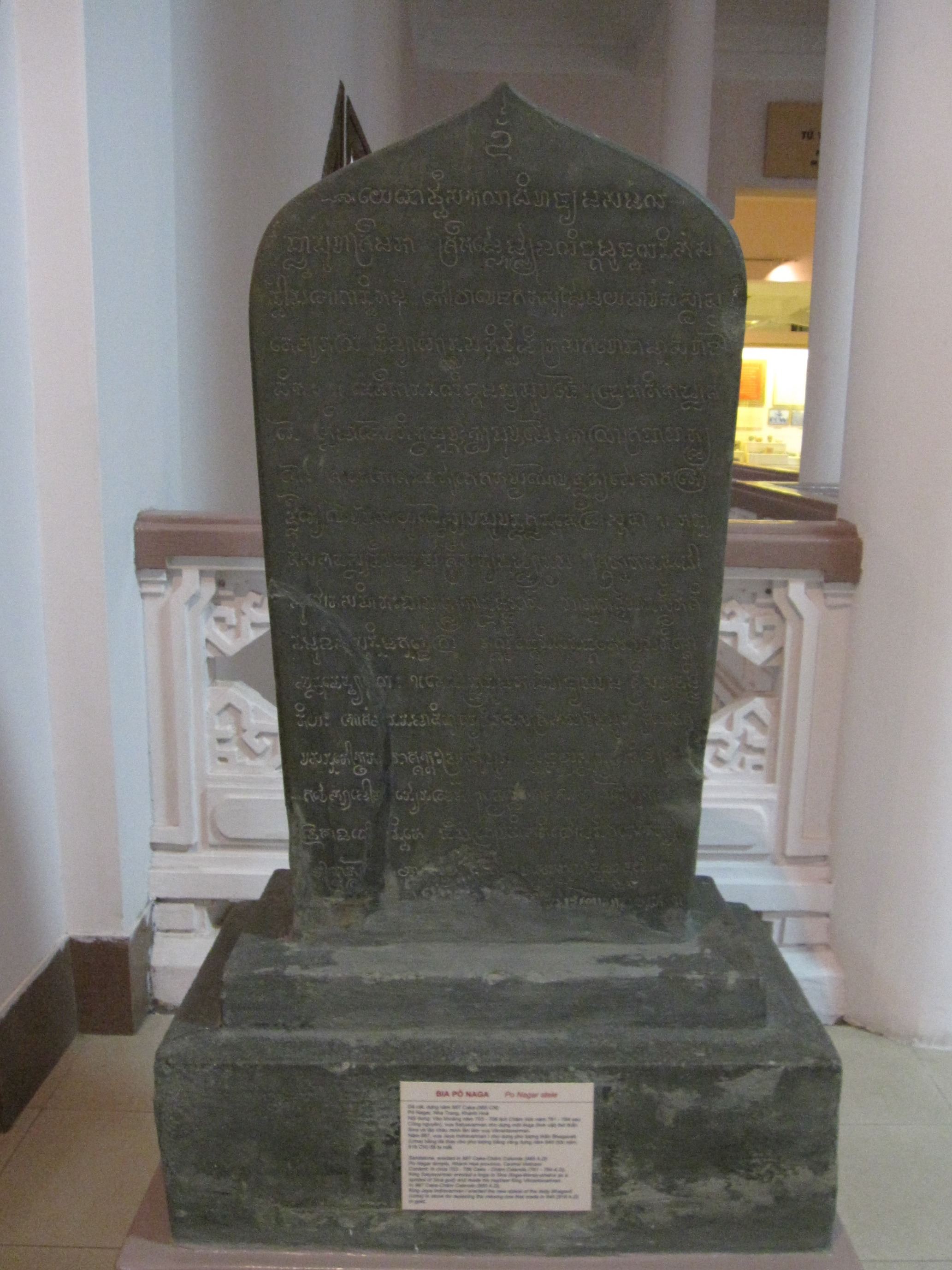 Po Nagar Stele, sandstone, erected in 887 Caka-Cham calendar (965 CE). Po Nagar temple, Khanh Hoa province, central Vietnam. Inscription says: In circa 703-706 Caka-Cham calendar (781-784 CE), King Satyavarman erected a linga to Shiva and made his nephew King Vikrantavarman. In 887 Caka-Cham calendar (965 CE), King Jaya Indravarman I erected the new statue of the deity Bhagavti (Uma) in stone to replace the missing one that was made in 840 (918 CE) in gold.